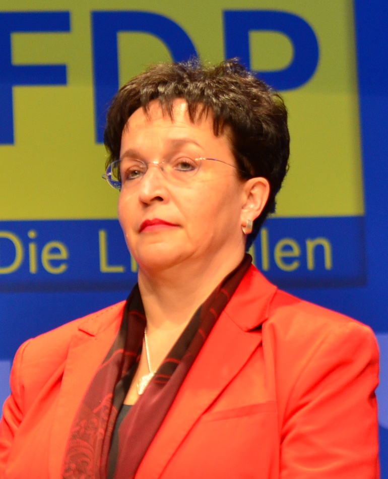 The federal election party FDP in Berlin Congress Center for the parliamentary election in 2013